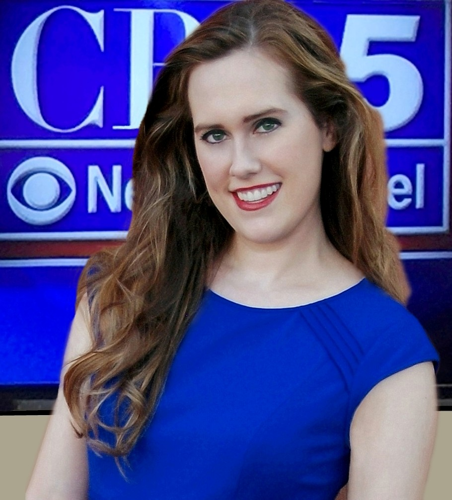 Katherine Chloé Cahoon as Anchor/Award-Winning Reporter at CBS NewsChannel 5